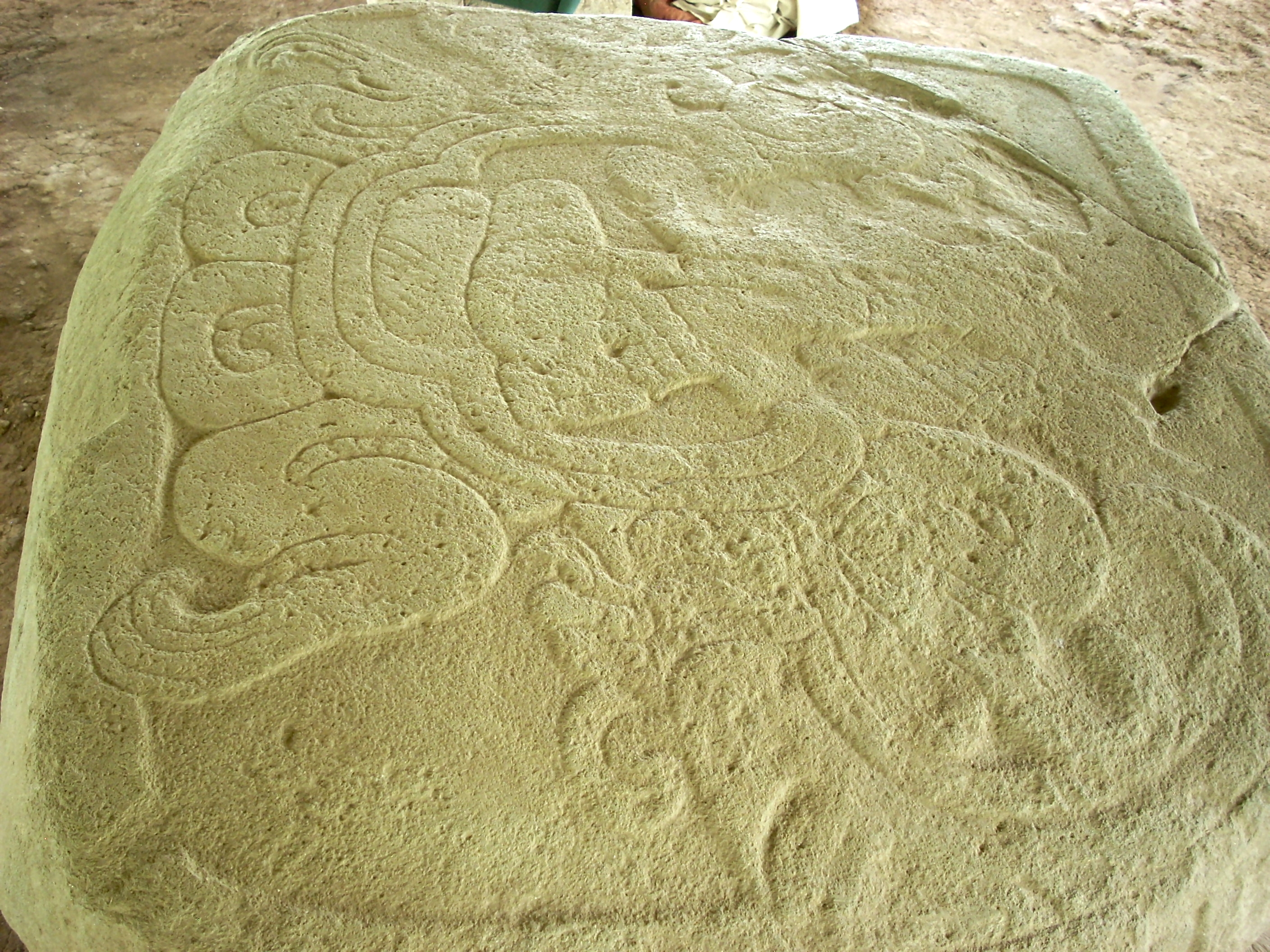 Altar 48 from Takalik Abaj. Late Preclassic sculpture in the Early Maya style. 400-200 BC.